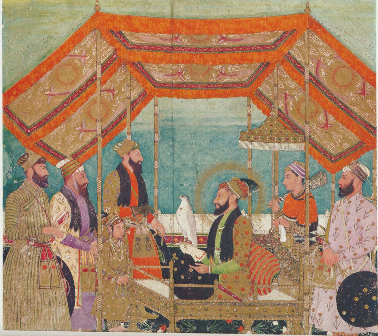 Aurangzeb holds court, as painted by (perhaps) Bichitr; Shaistah Khan stands behind Prince Muhammad Azam